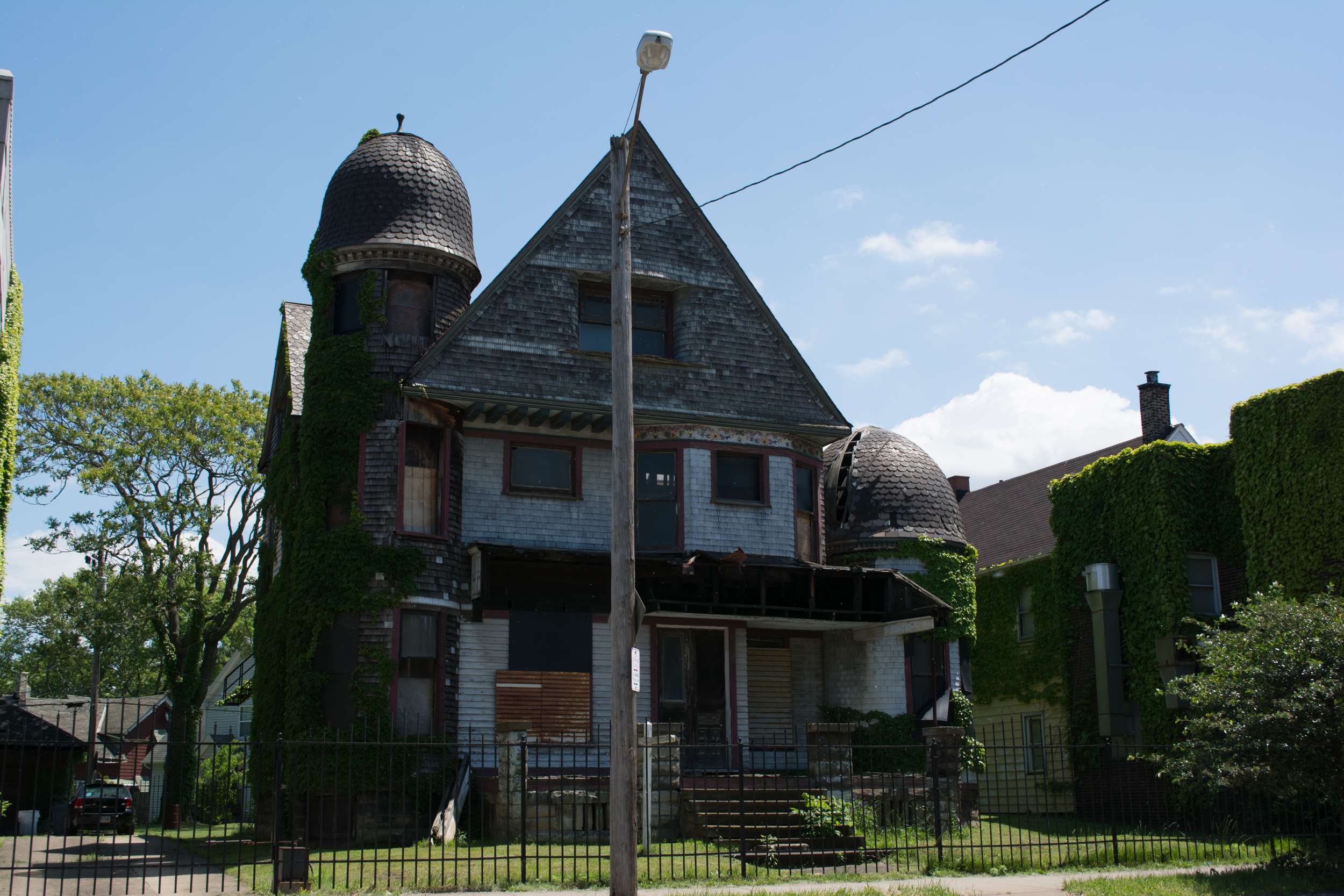 3299 E. 55th Street in Cleveland, Ohio, in the United States. This abandoned home is included in the boundaries of the Broadway Avenue Historic District, although it is unclear if it is a contributing property.